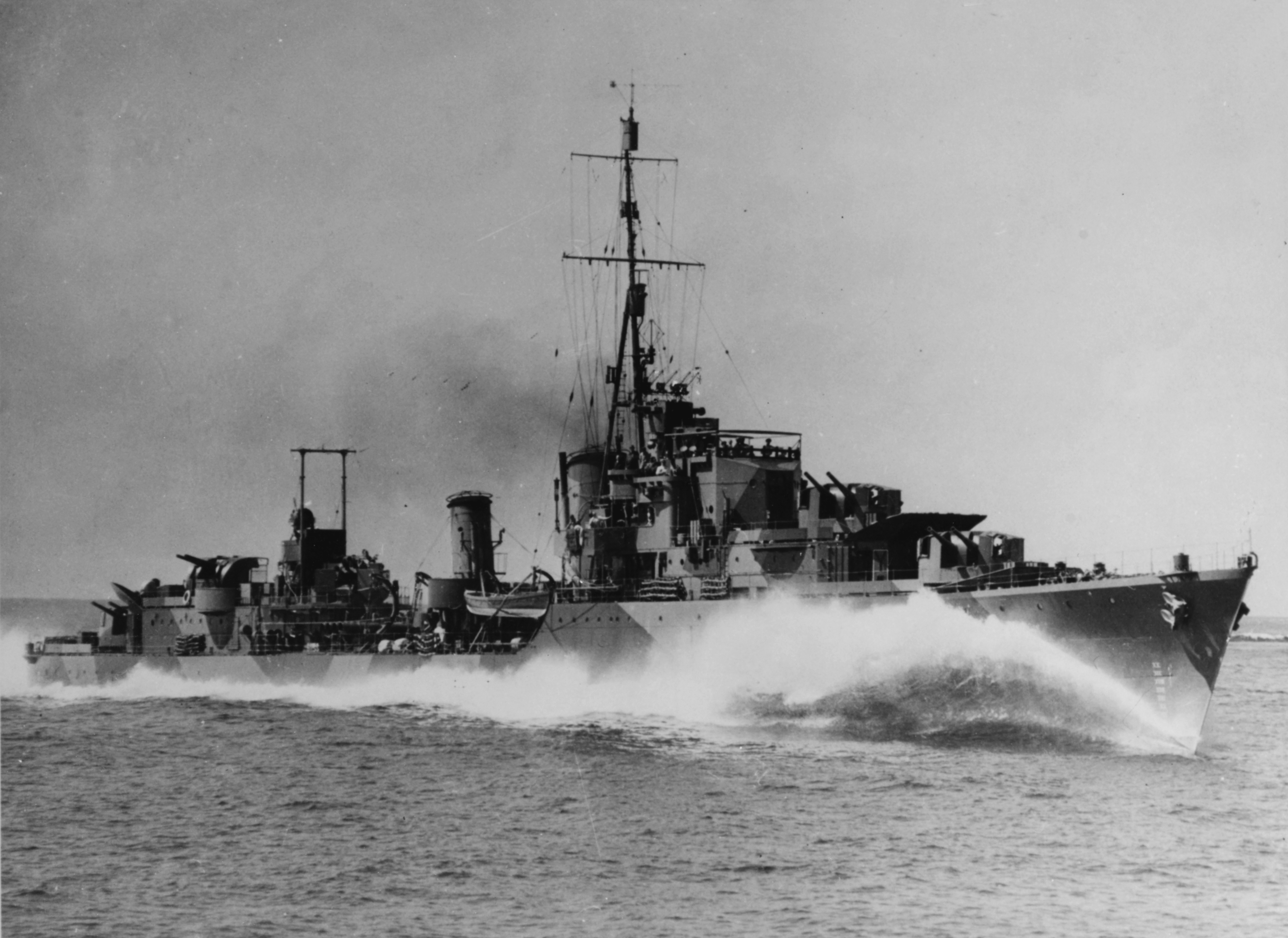 The Royal Australian Navy destroyer HMAS Warramunga (I44) underway at speed, circa in January 1943.